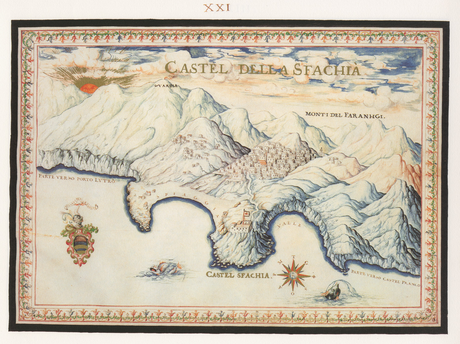 Castel della Sfacchia - Francesco Basilicata - 1618